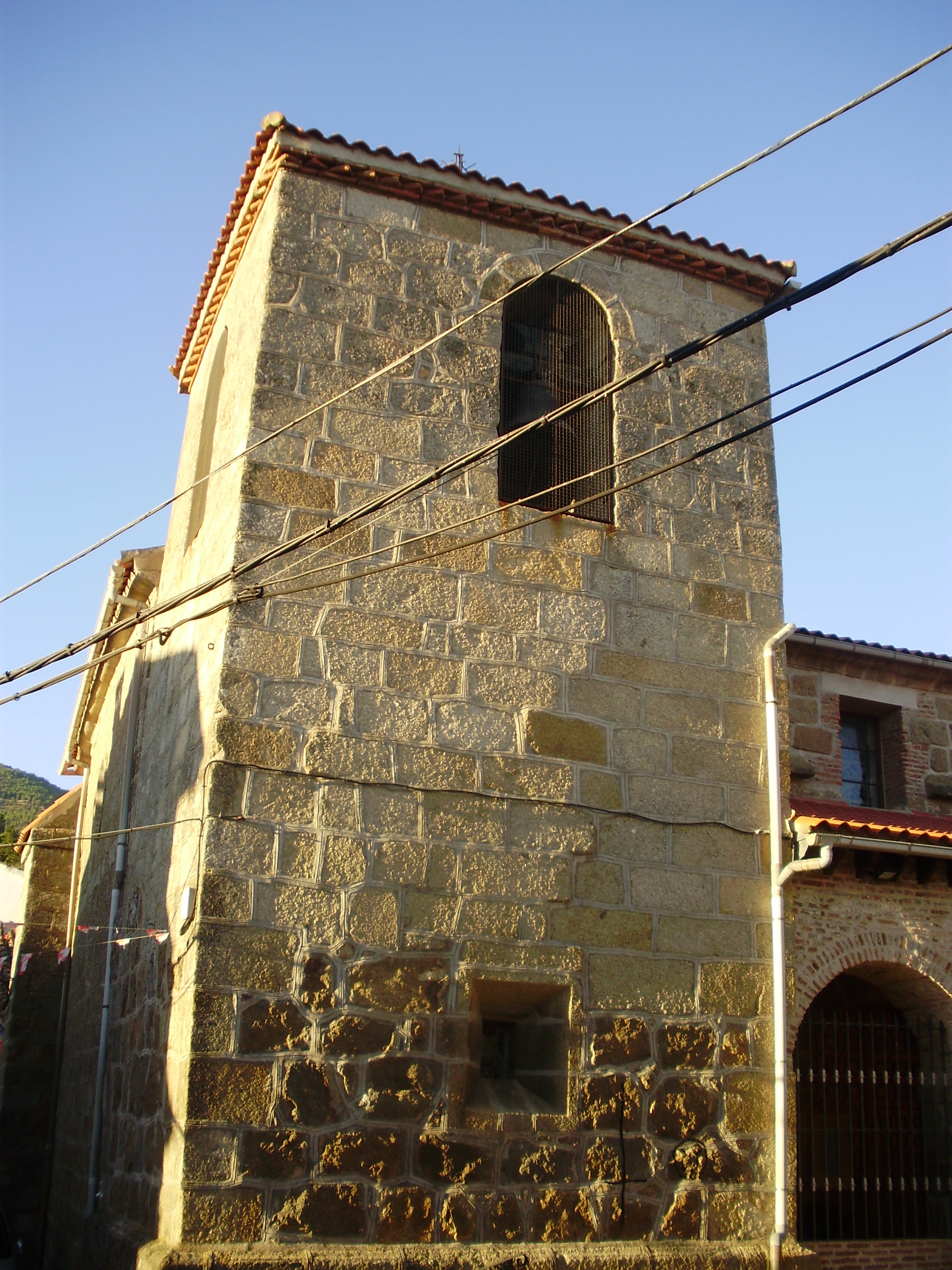 Church in Santa María del Tiétar